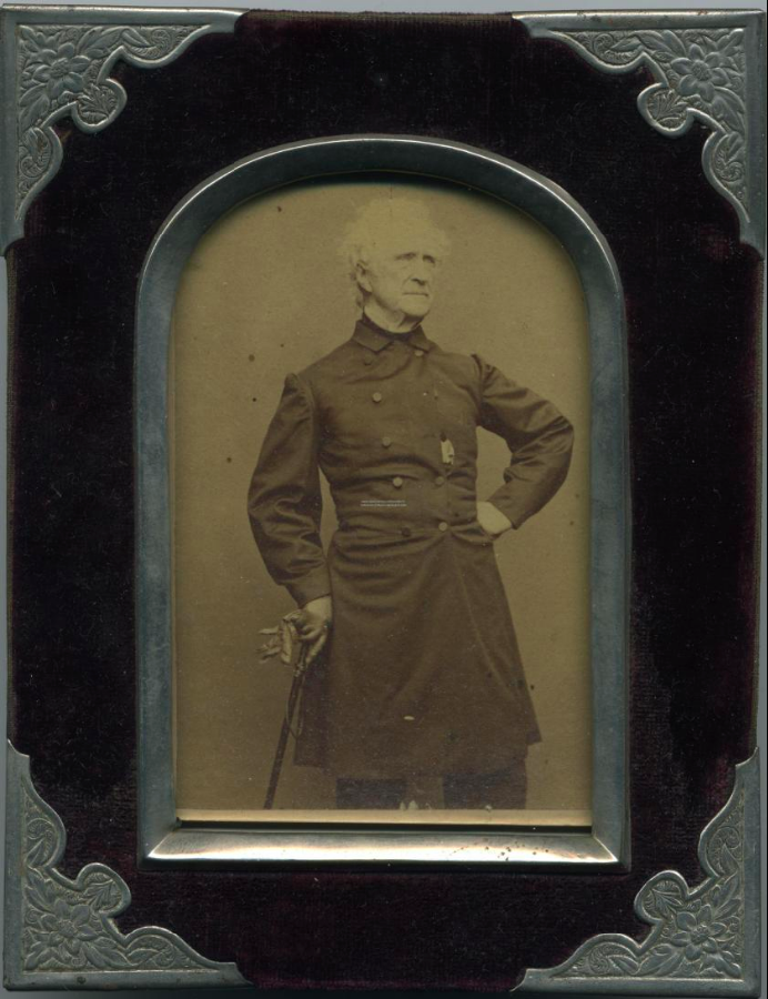 Photograph of eccentric and influential writer, critic, and activist John Neal (1793-1876) in 1875. From the collection of Maine Historical Society